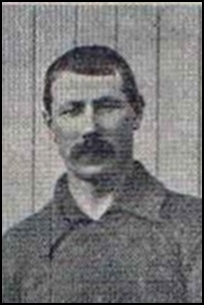 Bob Crone while with Brentford FC in 1902/03 - player and trainer